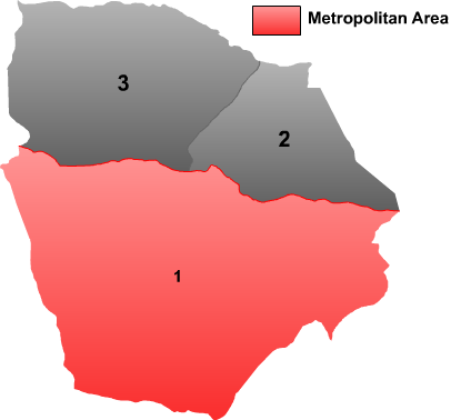 Map of Hami prefecture in Xinjiang Province